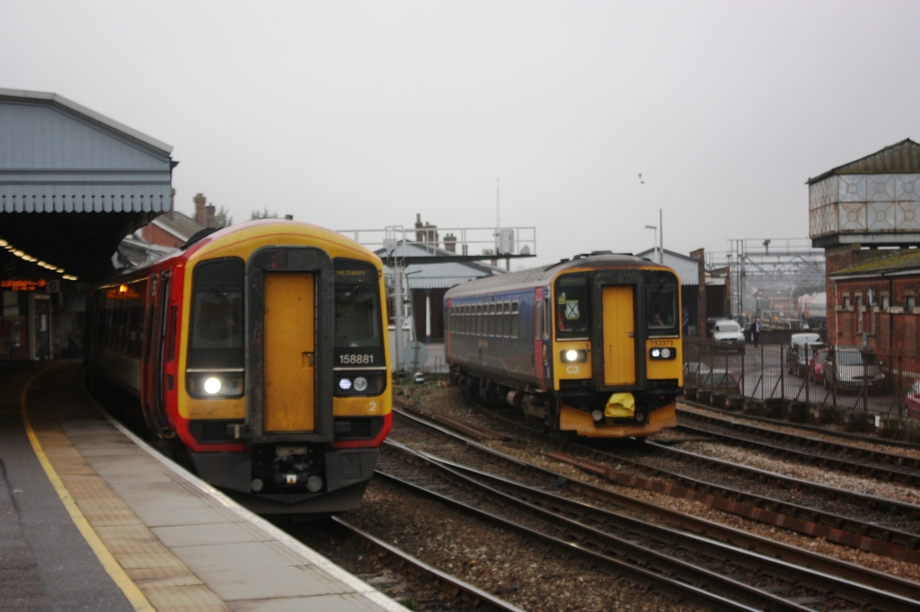 First Great Western's 153373 (right) leaves Salisbury station in Wiltshire, England, with a service to Romsey and Southampton, passing South West Train's 158881 which will follow it calling at all stations along the same route before continuing to Chandler's Ford.